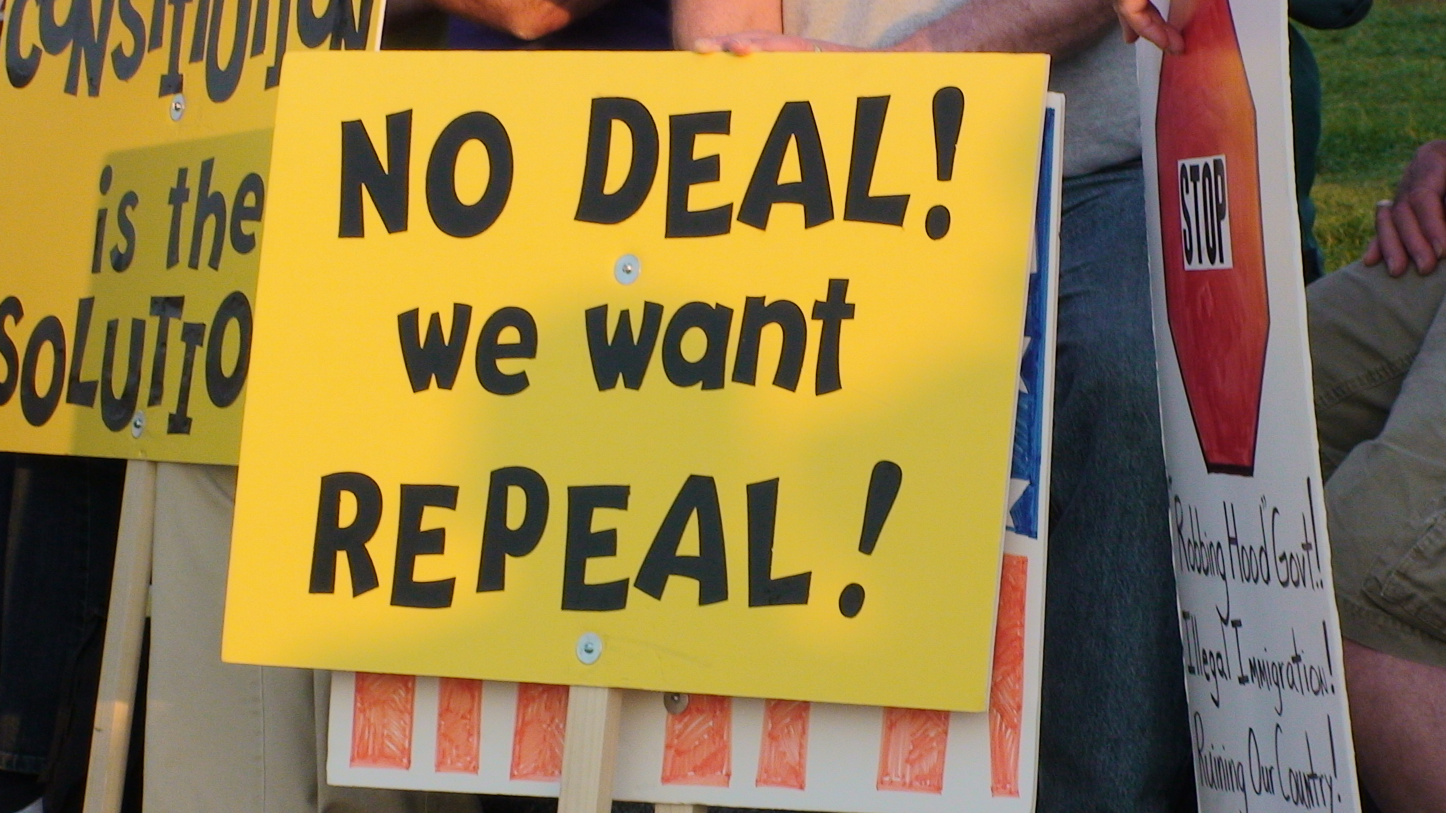 Strong message supporting the theme that the USA is heading in an unpopular direction.